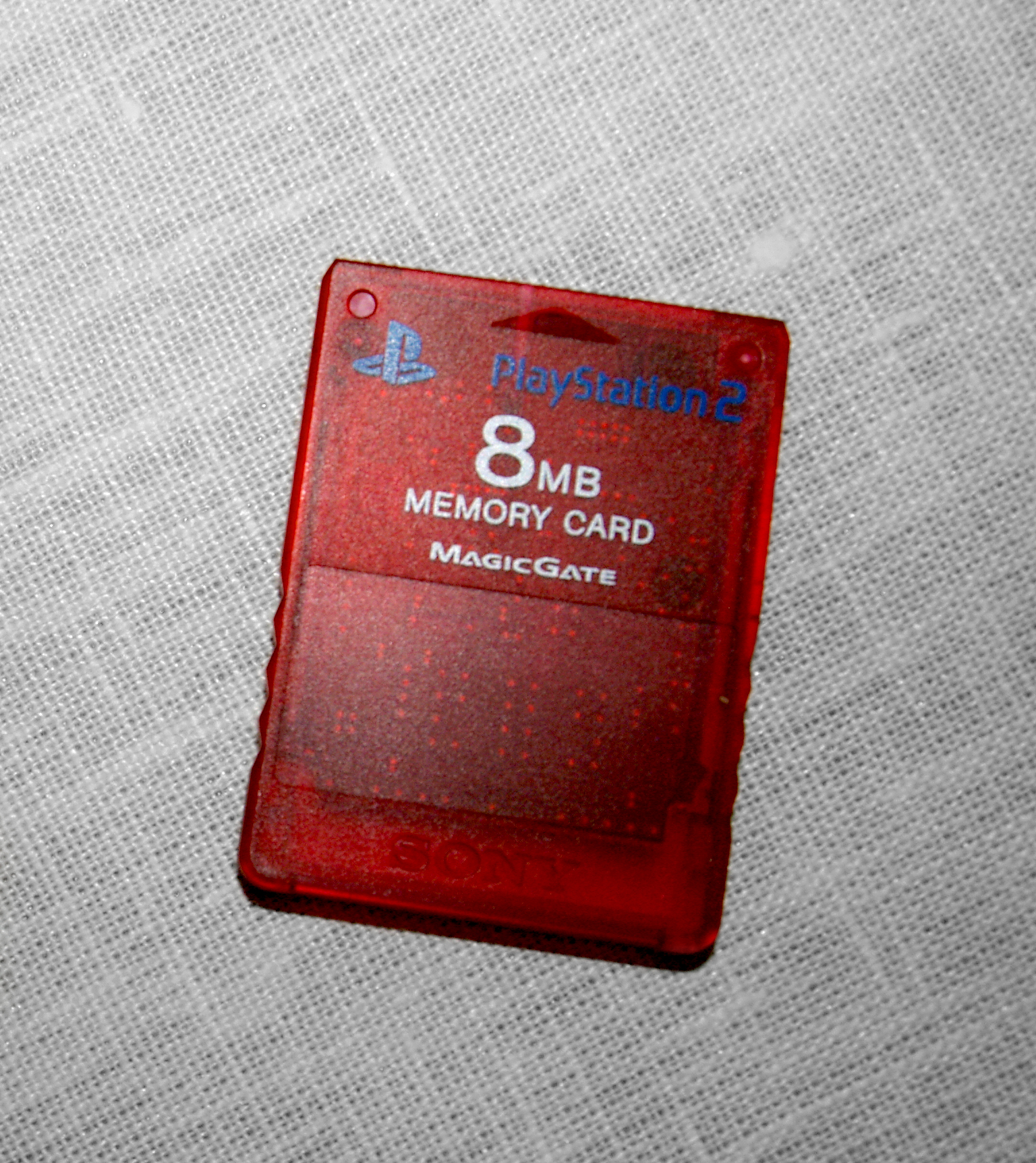 PlayStation 2 Memory Card, 8MB, red.